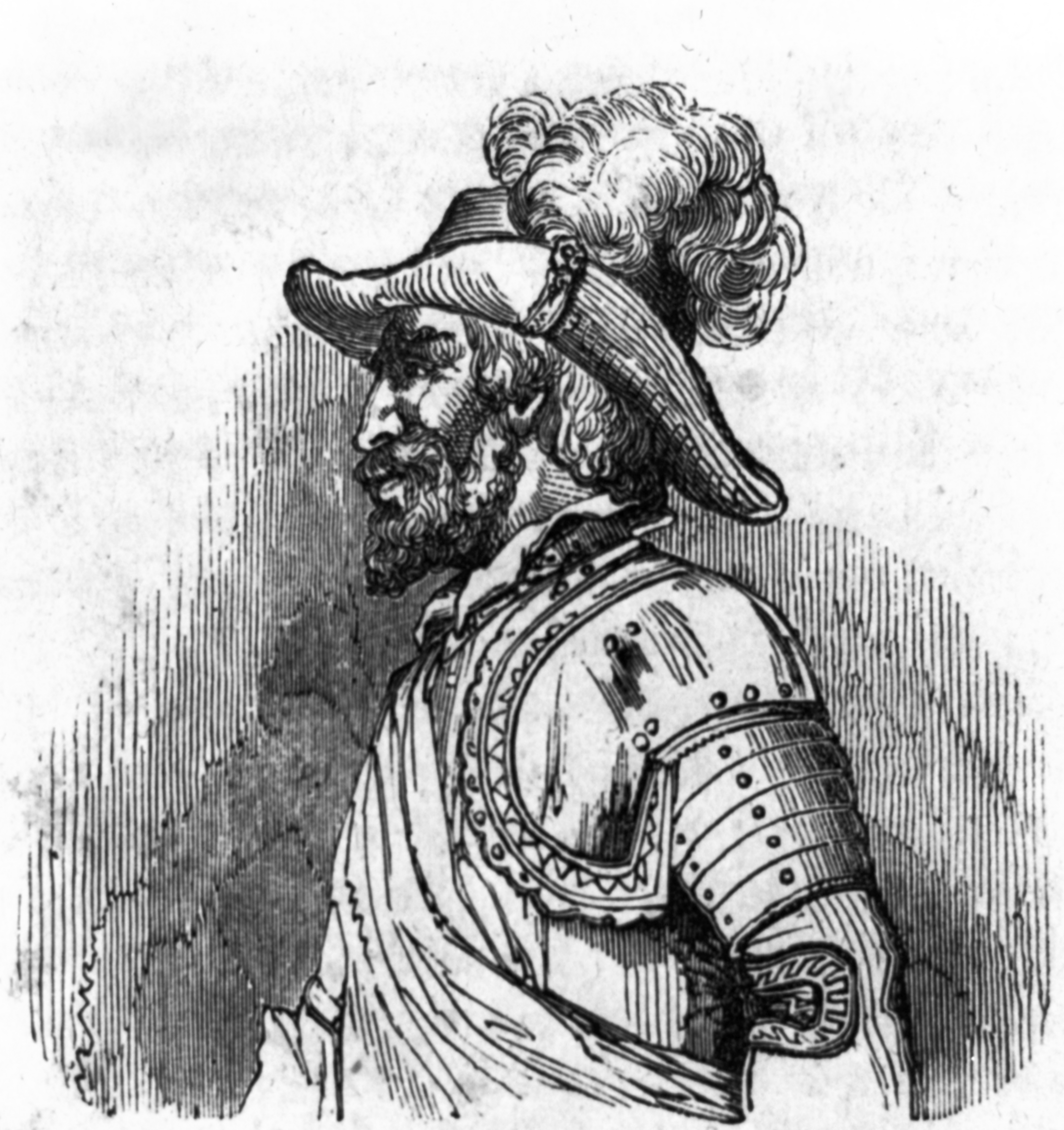 Engraving of Juan Ponce de Leon